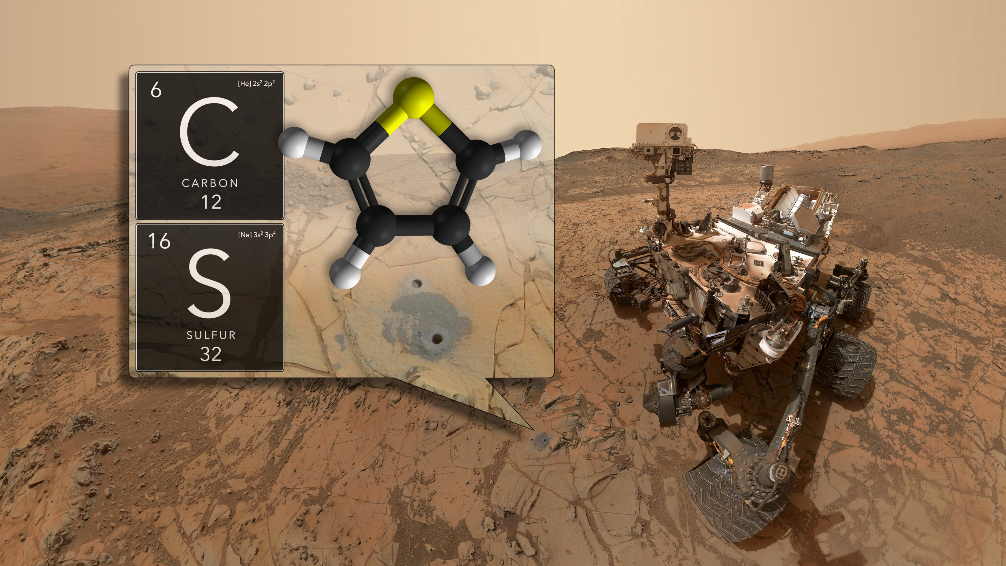 NASA's Curiosity rover has discovered ancient organic molecules on Mars, embedded within sedimentary rocks that are billions of years old.